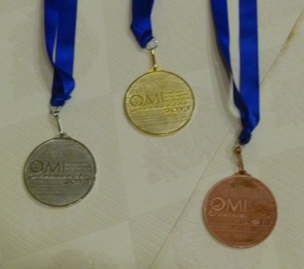 Medallas de oro, plata y bronce la 16a Olimpiada Mexicana de Informática